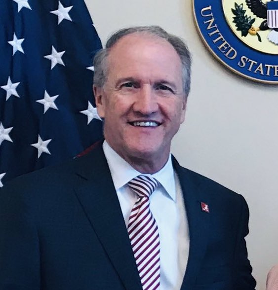 This morning I sat down with @UofAlabama President Dr. Stuart Bell. I was glad to learn about his priorities and to hear about the wonderful developments happening on campus. Thanks for your time!